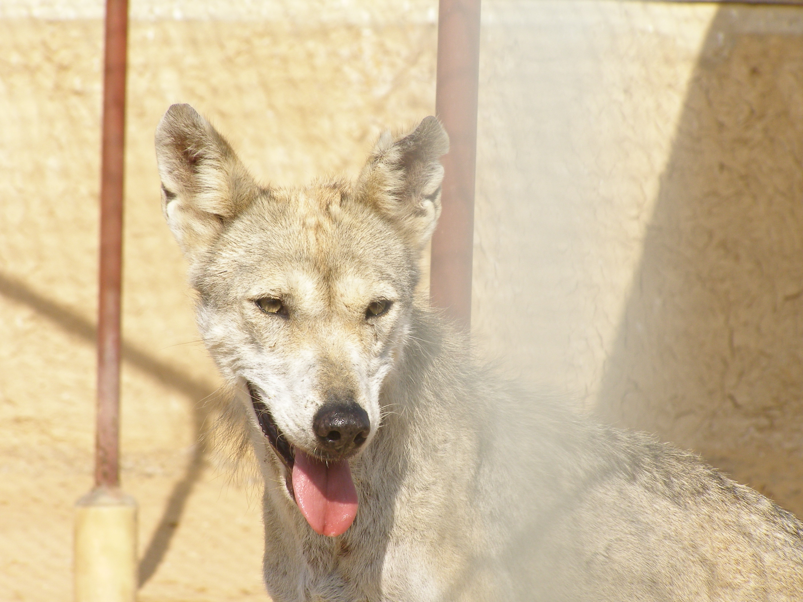 Head of Arabic Grey Wolf (Canis lupus arabs) female, Front